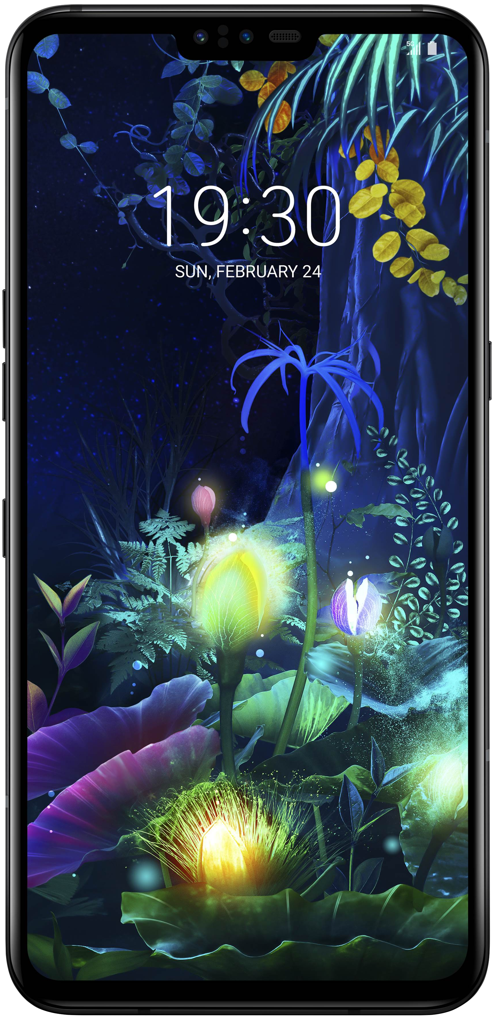 Cropped image of File:LG V50 ThinQ.jpg.